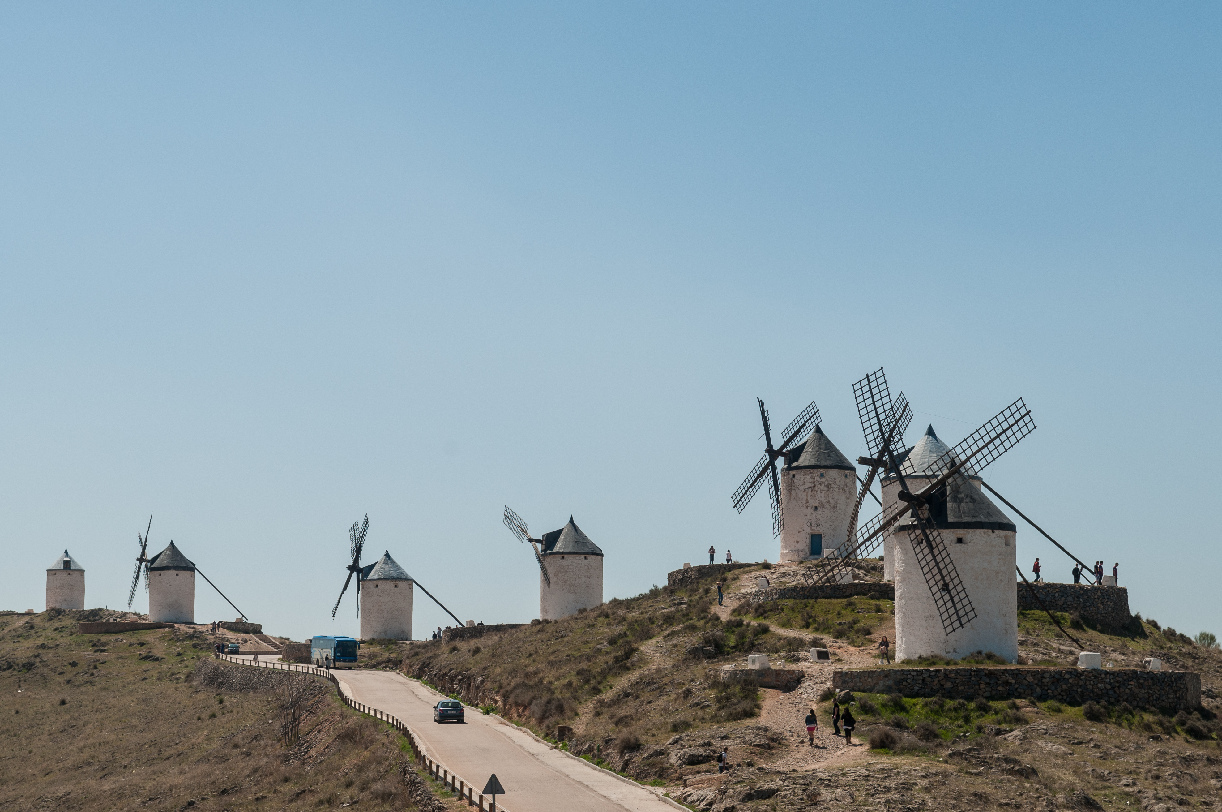 Consuegra is a municipality located in the province of Toledo, Castile-La Mancha, Spain. In 2009 the municipality had a population of 10,932 inhabitants. It is 80 km from Ciudad Real and 60 km from Toledo. The principal economy sector is agriculture. The industry is predominated by textile and wood. The castle and the windmills are Consuegra's most important monuments. Most Spanish windmills, like those described in Cervantes's Don Quixote, can be found in the province of Castilla-La Mancha in central Spain. The best examples of restored Spanish windmills may be found in Consuegra where several mills spike the hill just outside of town, giving us a spectacular view of the 12th century castle and of the town. The castle was once a stronghold when Consuegra was the seat and priory of the Knights of San Juan, the Spanish branch of the Knight's Hospitallers of the Order of St. John of Jerusalem. Windmills are also located in Mota del Cuervo, Tomelloso, and Campo de Criptana. Consuegra is famous due to its windmills. They became famous in the 16th century, when Don Quixote was first published.. The introduction of the windmills was made by "Caballeros Sanjuanistas", who brought these machines that helped millers. These machines used the wind to grind grain (the most common grain is wheat). The windmills were transmitted from fathers to sons. They usually consisted of two rooms or levels. Millers had to carry sacks of grains that could weigh 60 or 70 kilos to the top floor, they rotated the sails of the windmill as the top part of the windmill or dome was moveable. They stopped being used at the beginning of the1980s. Consuegra. (2012, January 19). In Wikipedia, The Free Encyclopedia. Retrieved 09:42, April 15, 2012, from